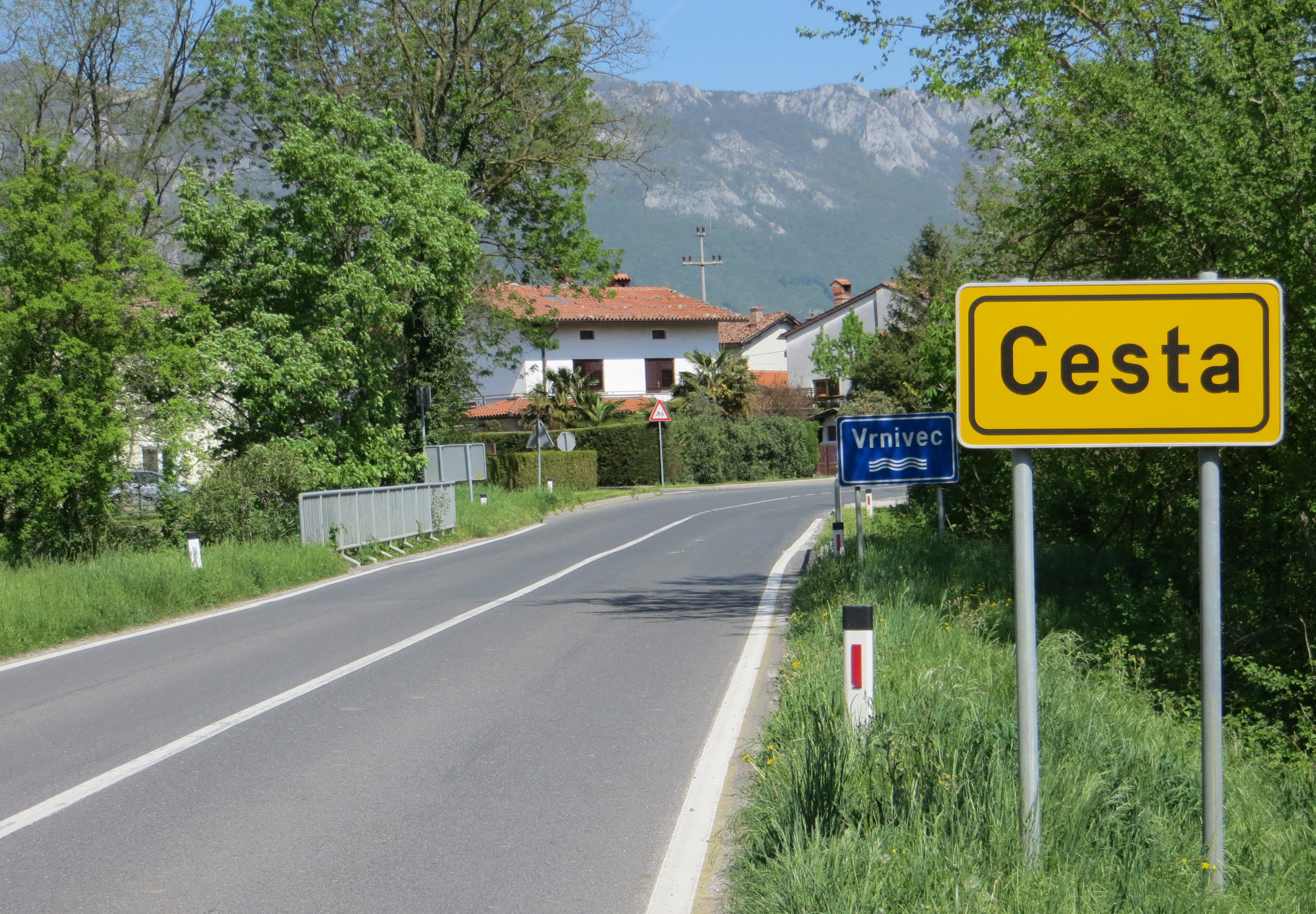 Cesta, Municipality of Ajdovščina, Slovenia